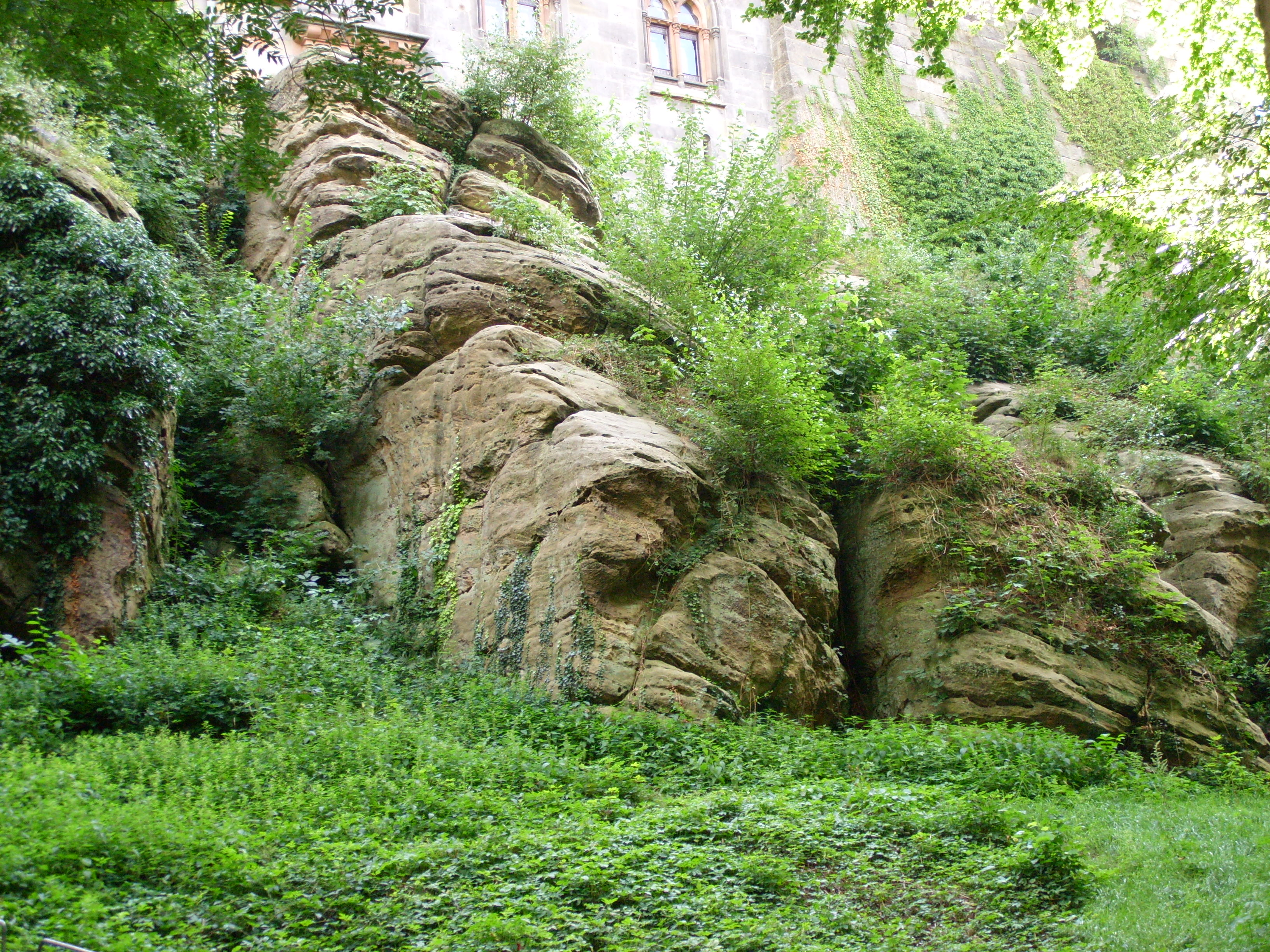 Bentheim Sandstone outcrop in Bad Bentheim, Germany